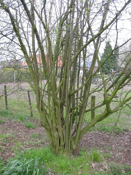 Corylus avellana bush; Hazelaarstruik; Corylus avellana